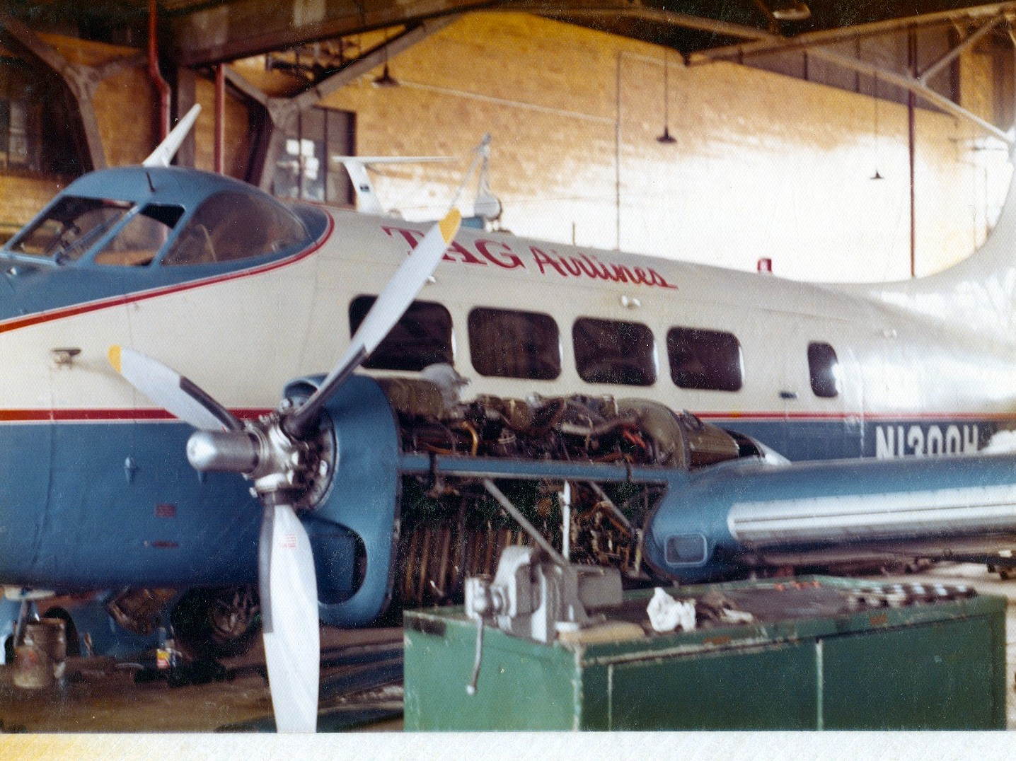 Taken at DET (Detroit City Airport) in 1969 Work being done on Gipsy Queen Engine.